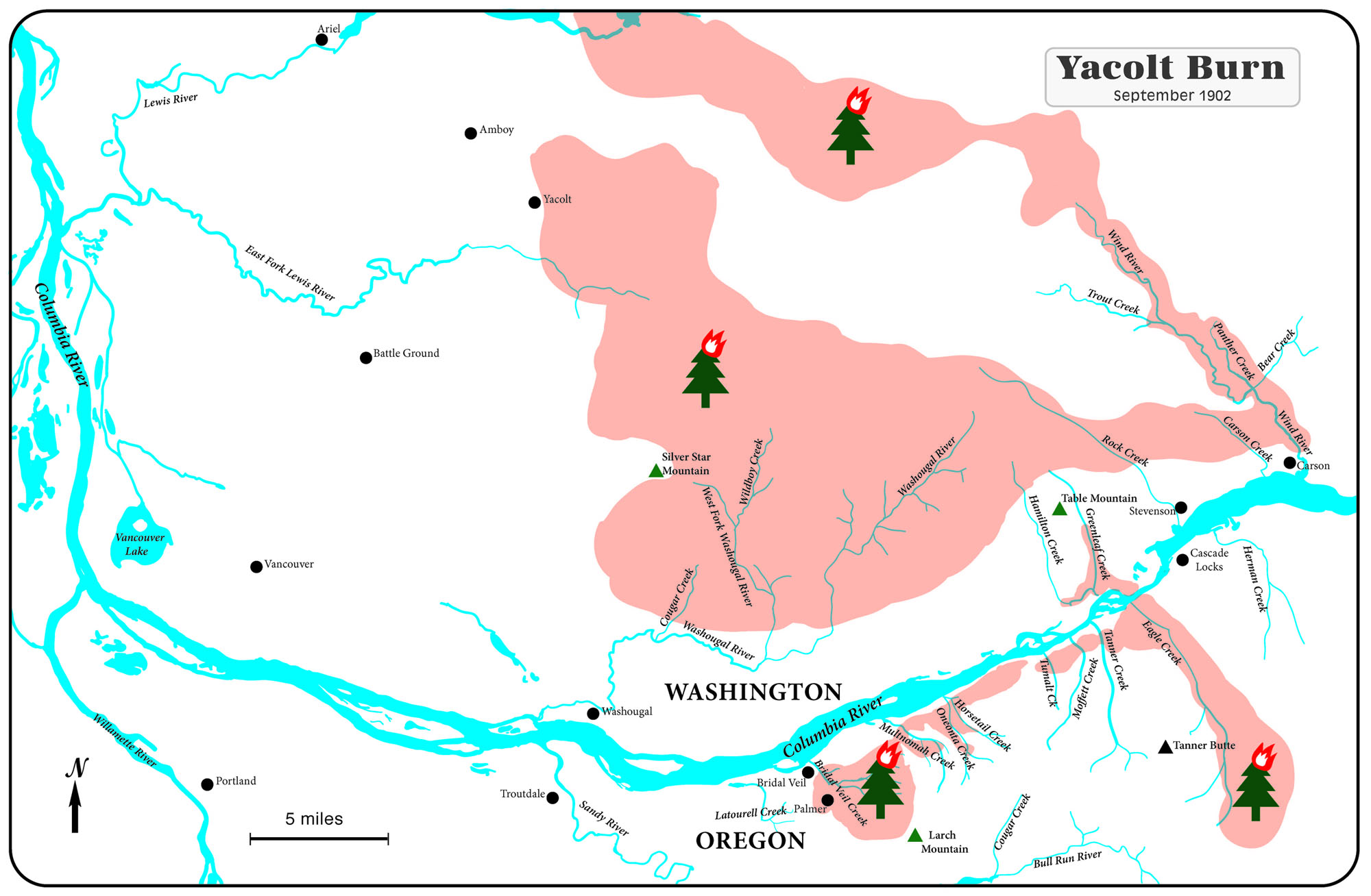 Approximate area burned in the 1902 Yacolt Burn. Areas to the north of the map were also burned, as far away as Chehalis, Washington.